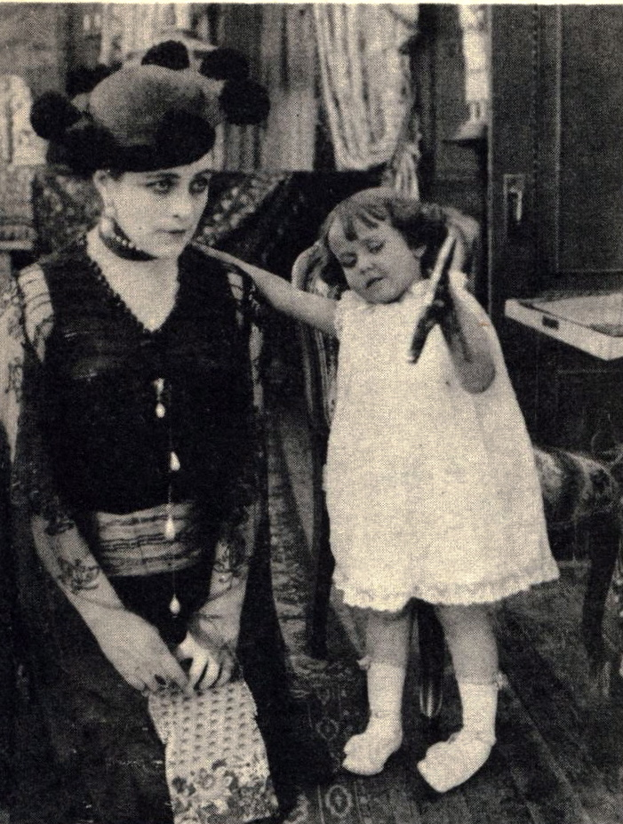 The Soul of Broadway was a 1915 American silent crime drama film produced and distributed by the Fox Film Corporation and directed by Herbert Brenon. This is a scene from the film.